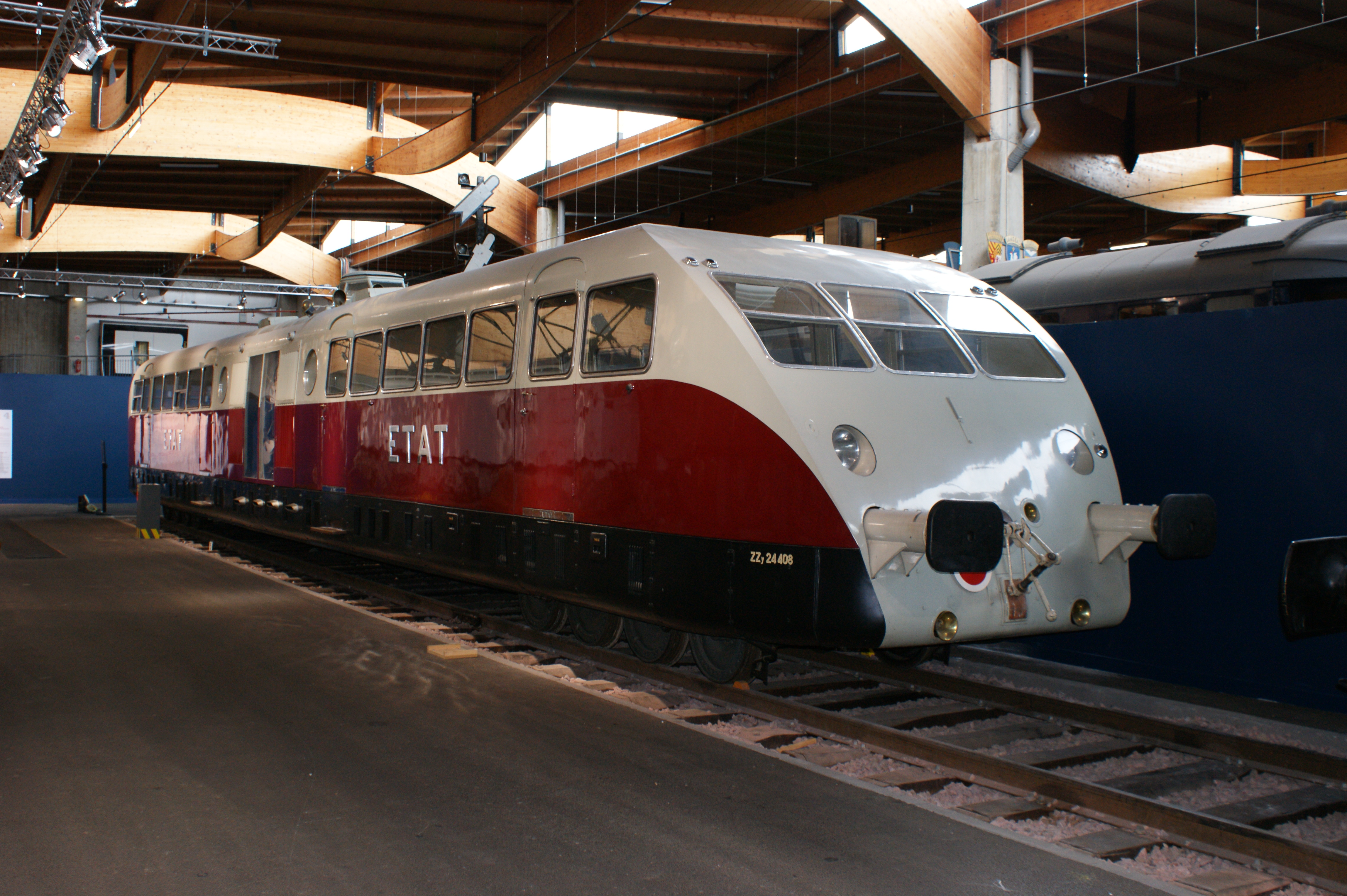 Etat Bugatti "Presidential" Class diesel railcar No.ZZy 24408 (SNCF No.XB 1008), at the French Railway Museum, Mulhouse, 3/09.